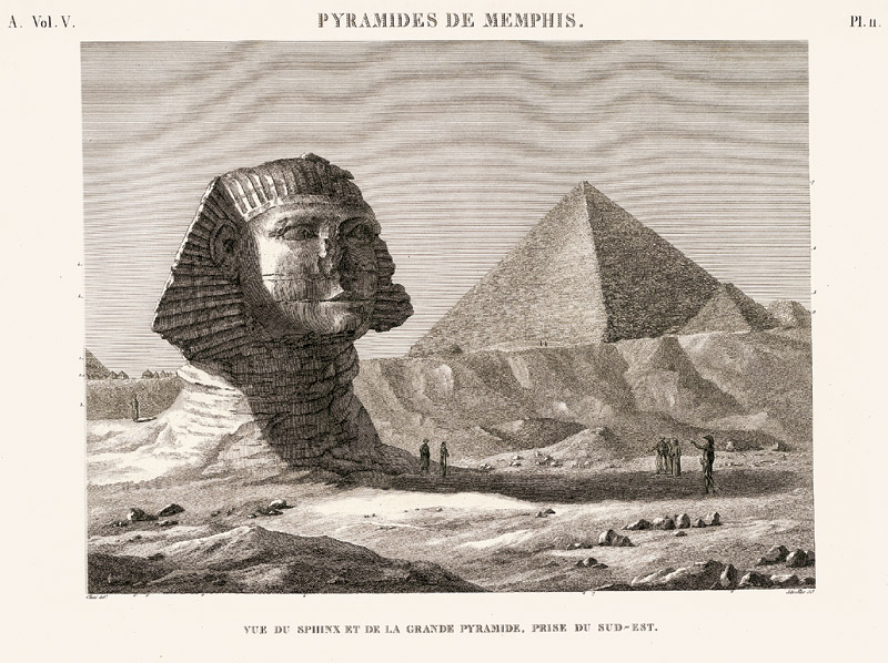 The Great Sphinx of Giza in Description de l'Egypte (Panckoucke edition), Planches, Antiquités, volume V (1823), also published in the Imperial edition of 1822.